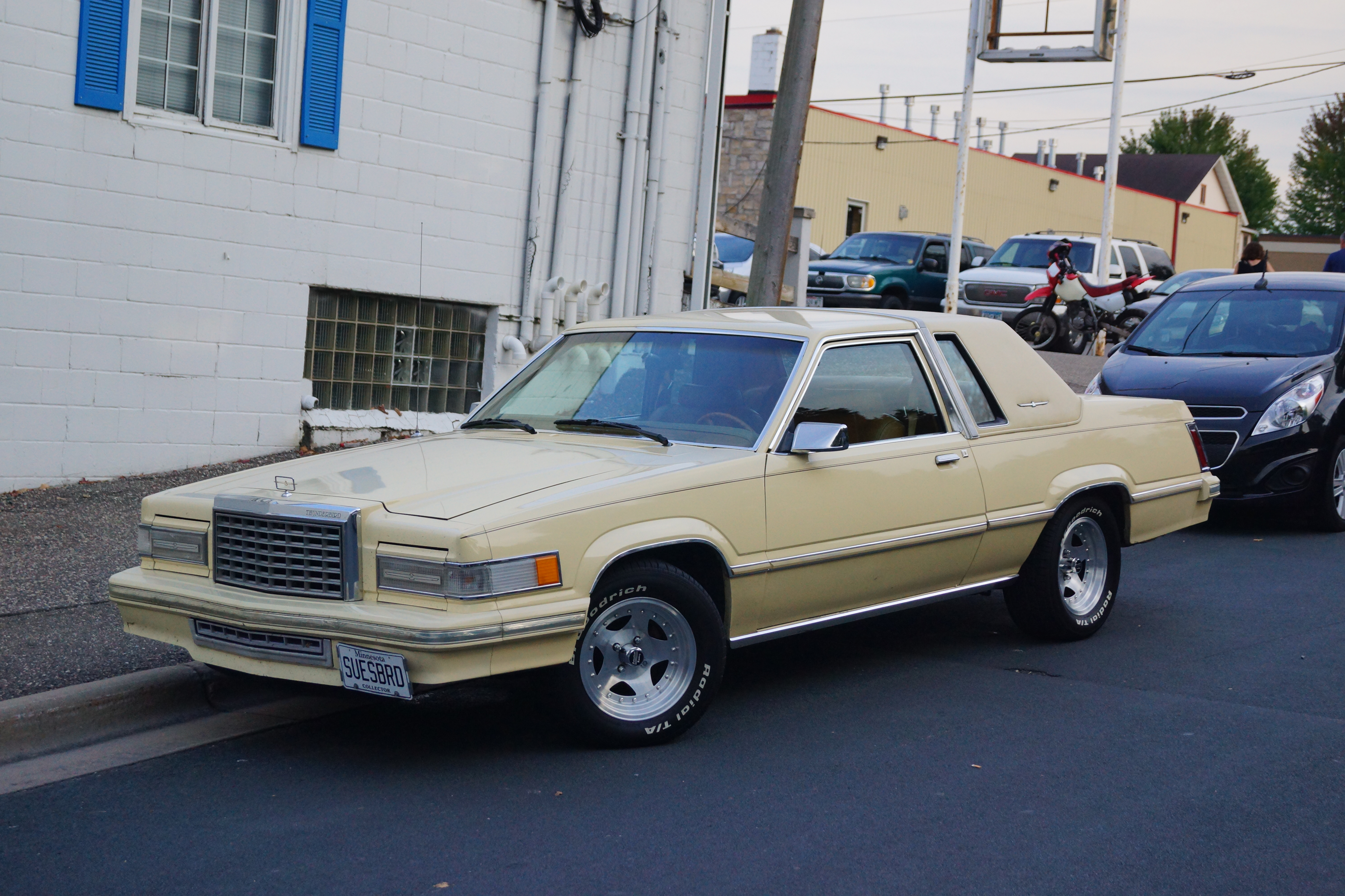 HISTORIC DOWNTOWN HASTINGS CRUISE-IN & CLASSIC CAR SHOW Hastings, Minnesota Season Finale September 2017 ******* Click here for previous Hastings Cruise Night pictures.. Click here for more car pictures at my Flickr site. Or here for my Car Crazy Tumblr site. Or on Twitter @DVS1mn.